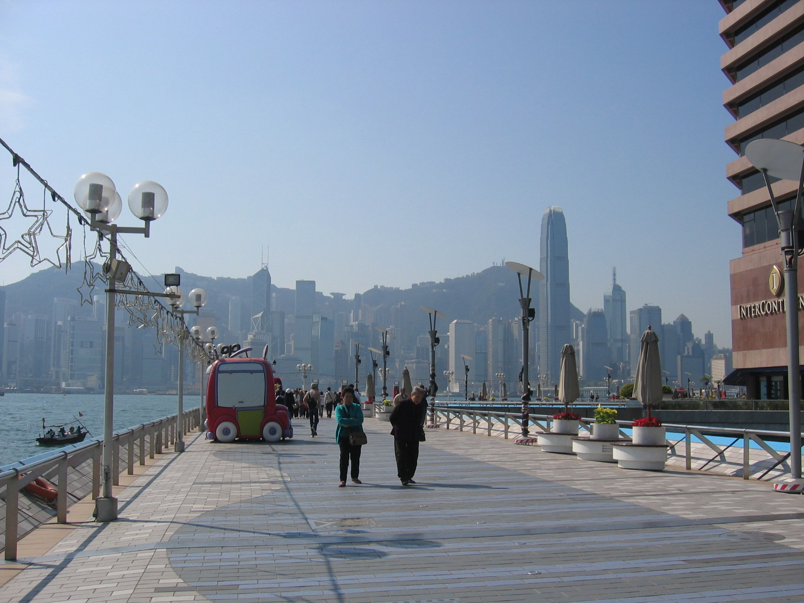 Avenue of Stars at Tsim Sha Tsui, Hong Kong.